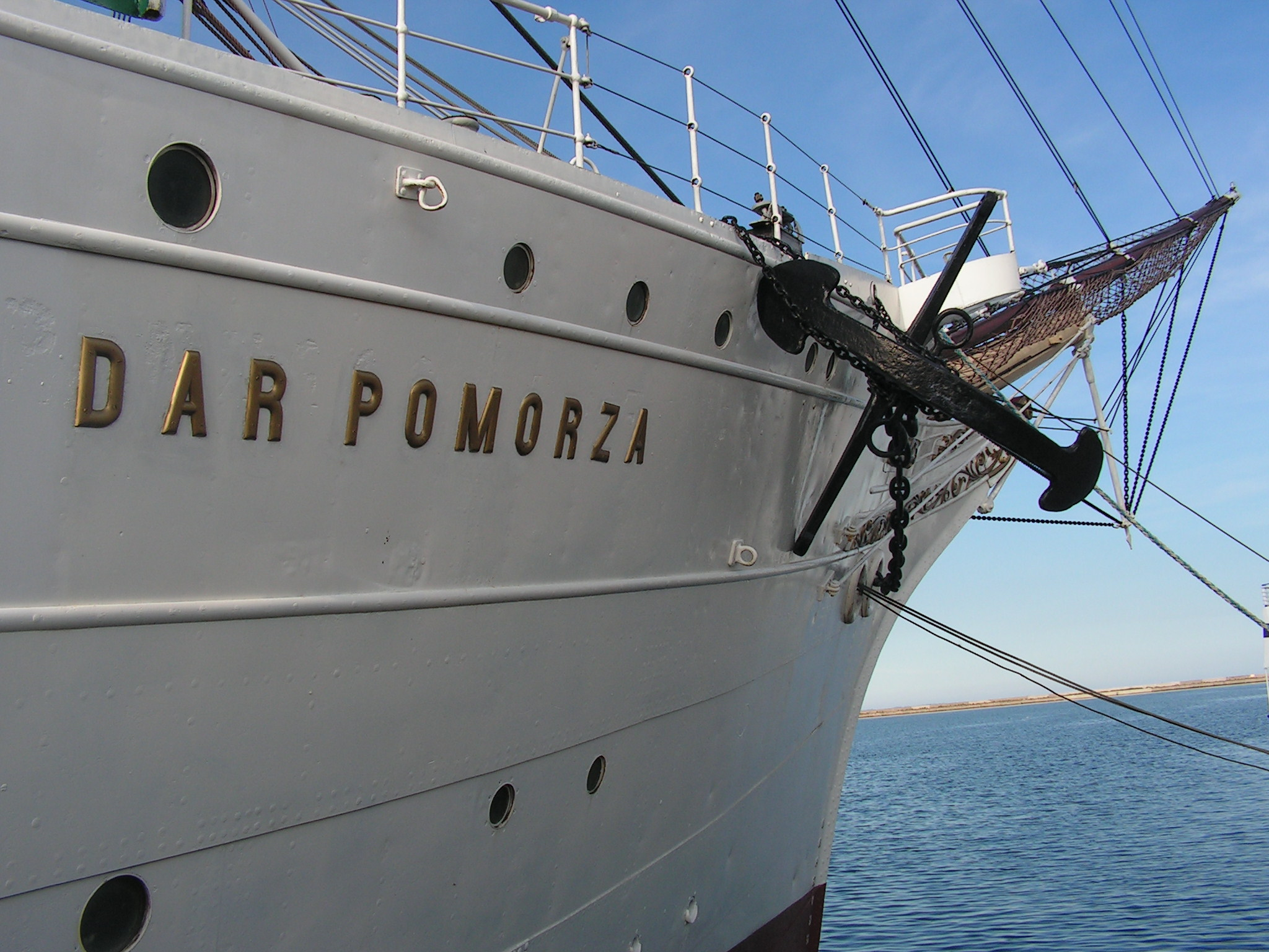 Gdynia - Dar Pomorza